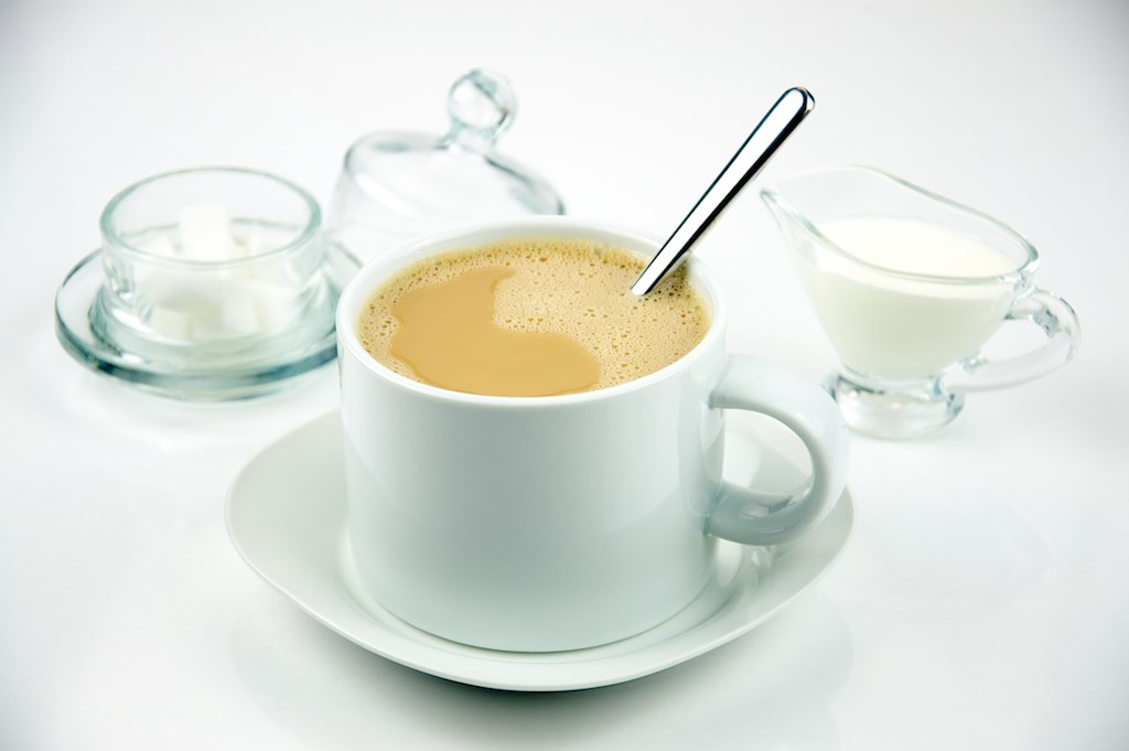 Coffee in a white cup served on a saucer with stirring spoon.